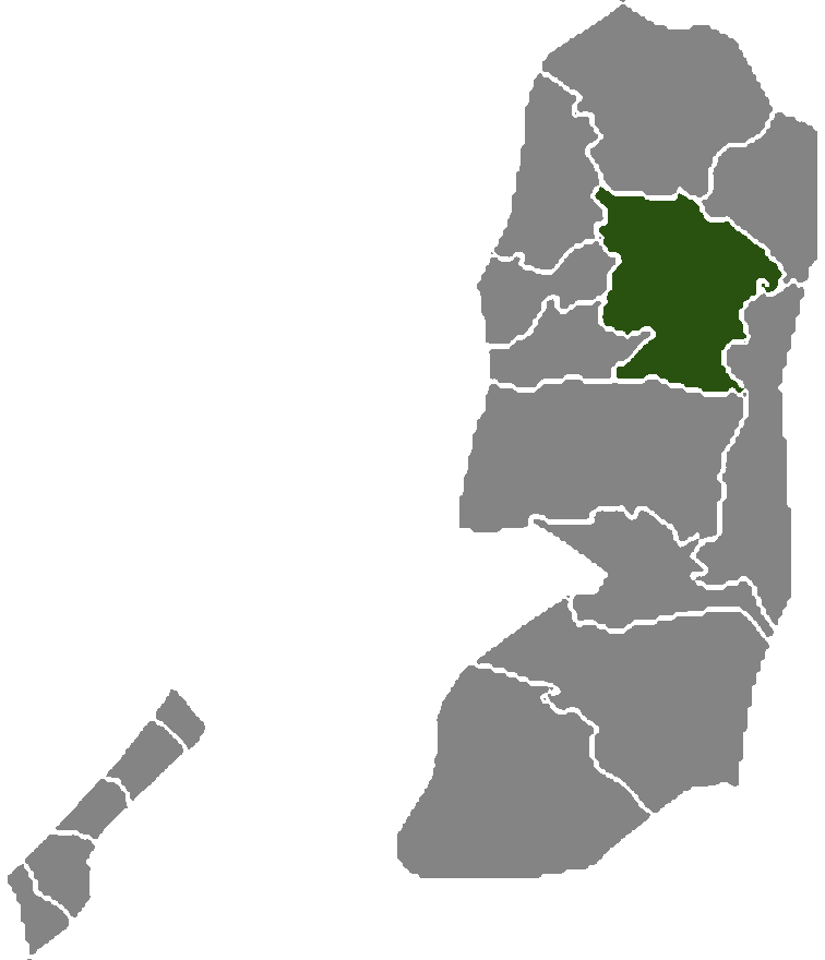 Palestine governorate Nablus